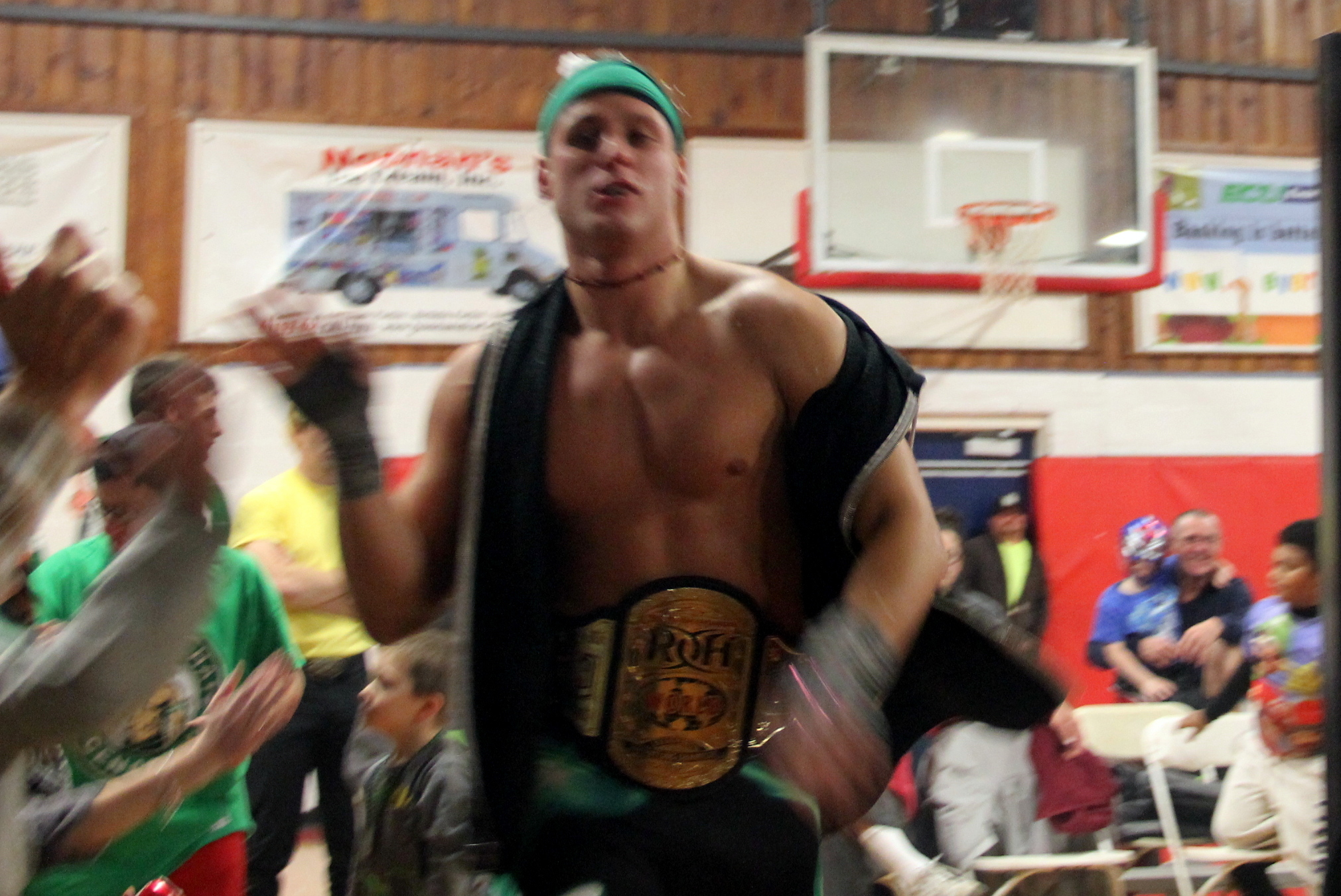 taven with the title